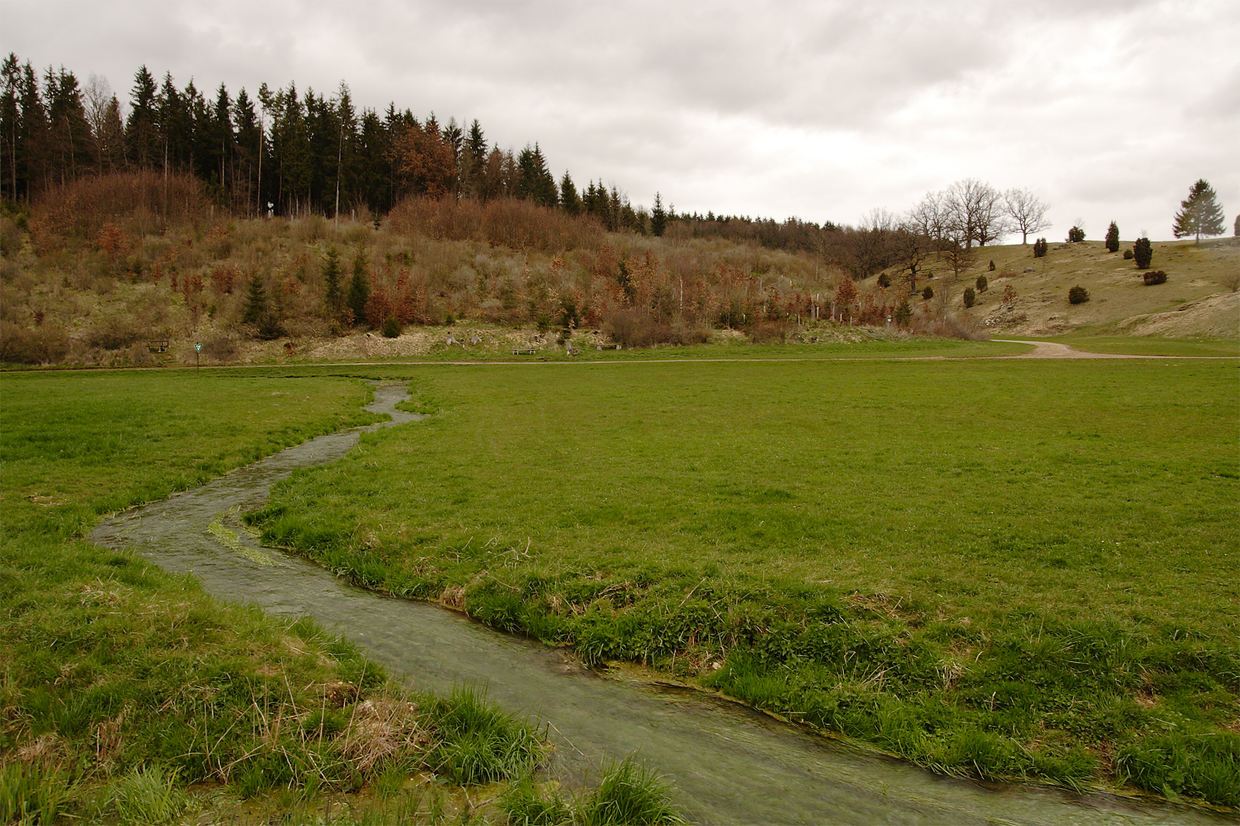 Hungerbrunnen, episodically, in rainy years, running karst spring. The water exits from the flat valley ground. Typical landscape of the Swabian Alb: Broad former floodplain, now a Dry Valley with the same name as the spring itself. Watch the bushes on the sheep ground (right): Plants of the Genus Juniperus. On the Swabian Alb no less than 17 episodical karst springs have this same name.